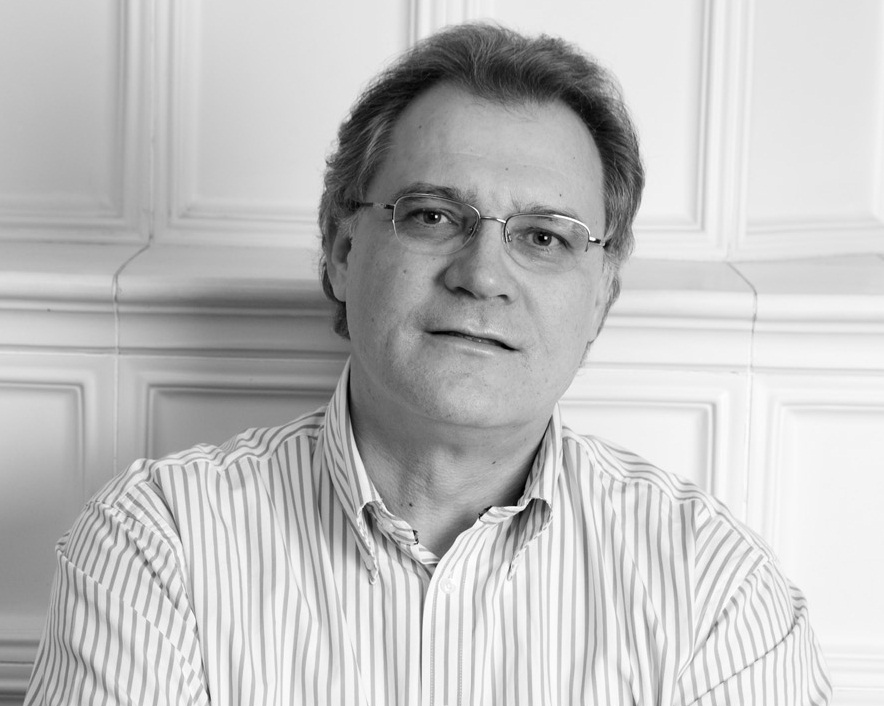 Photo of the Author Gerard Kanduth, 2011-02-22, Schiefling am See, Photographer: Johannes Puch